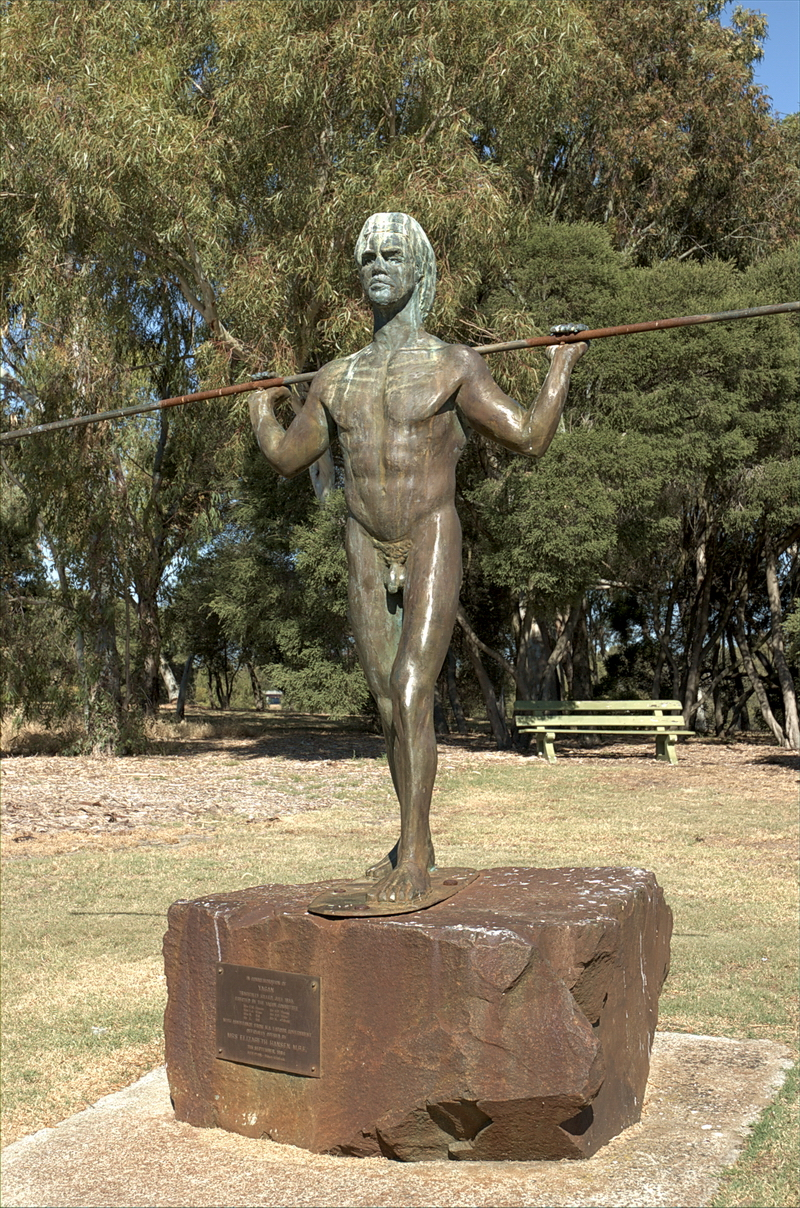 Yagan statue. Heirisson Island, Perth, Western Australia. The statue was sculpted in 1984 by Robert Hitchcock.